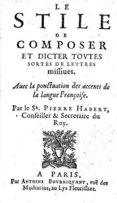 Title page of Pierre Habert, Le Stile de composer et dicter toutes sortes d elettres... (Paris : 1559).